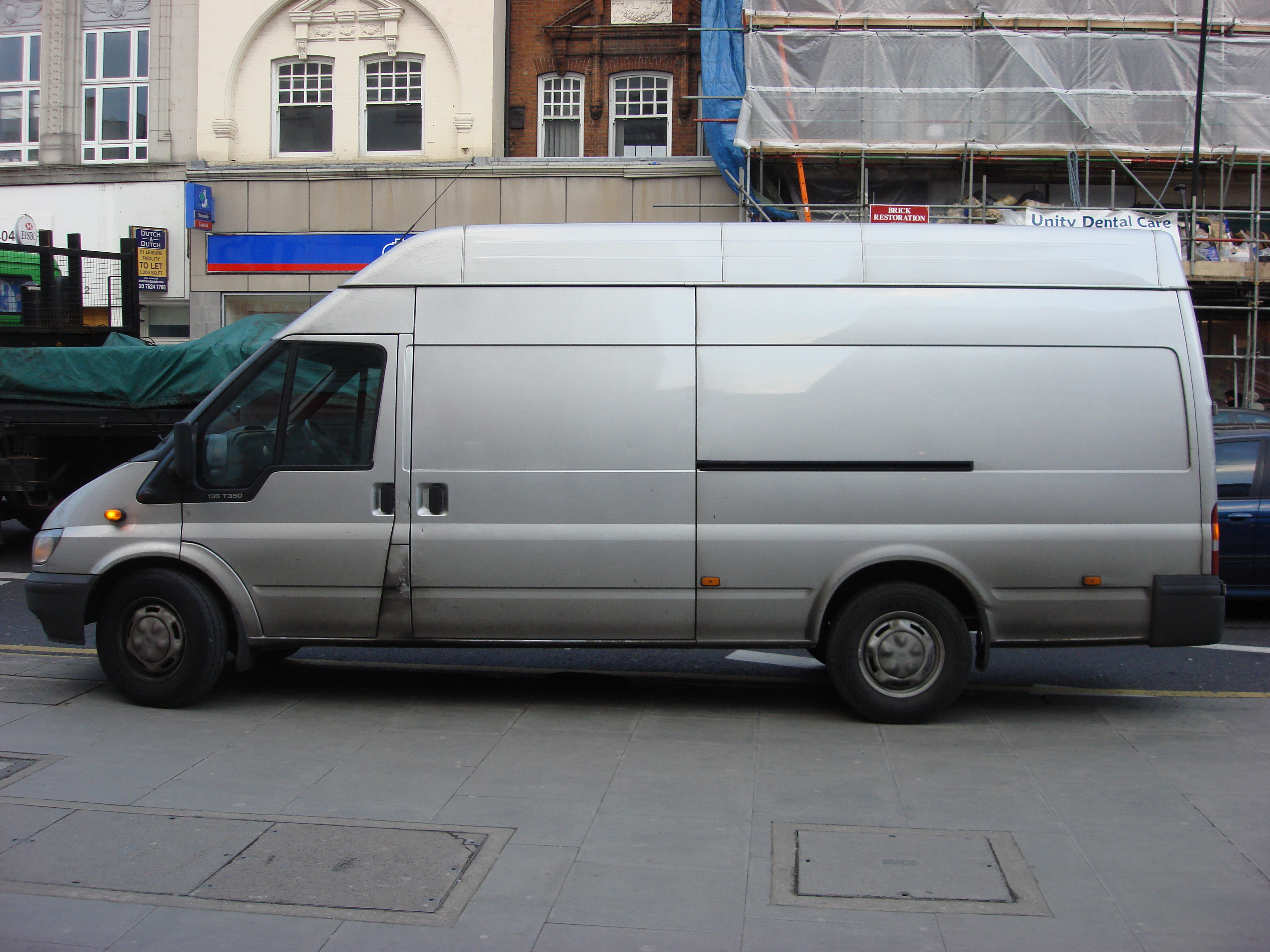 Ford Transit Long Wheelbase L4H3